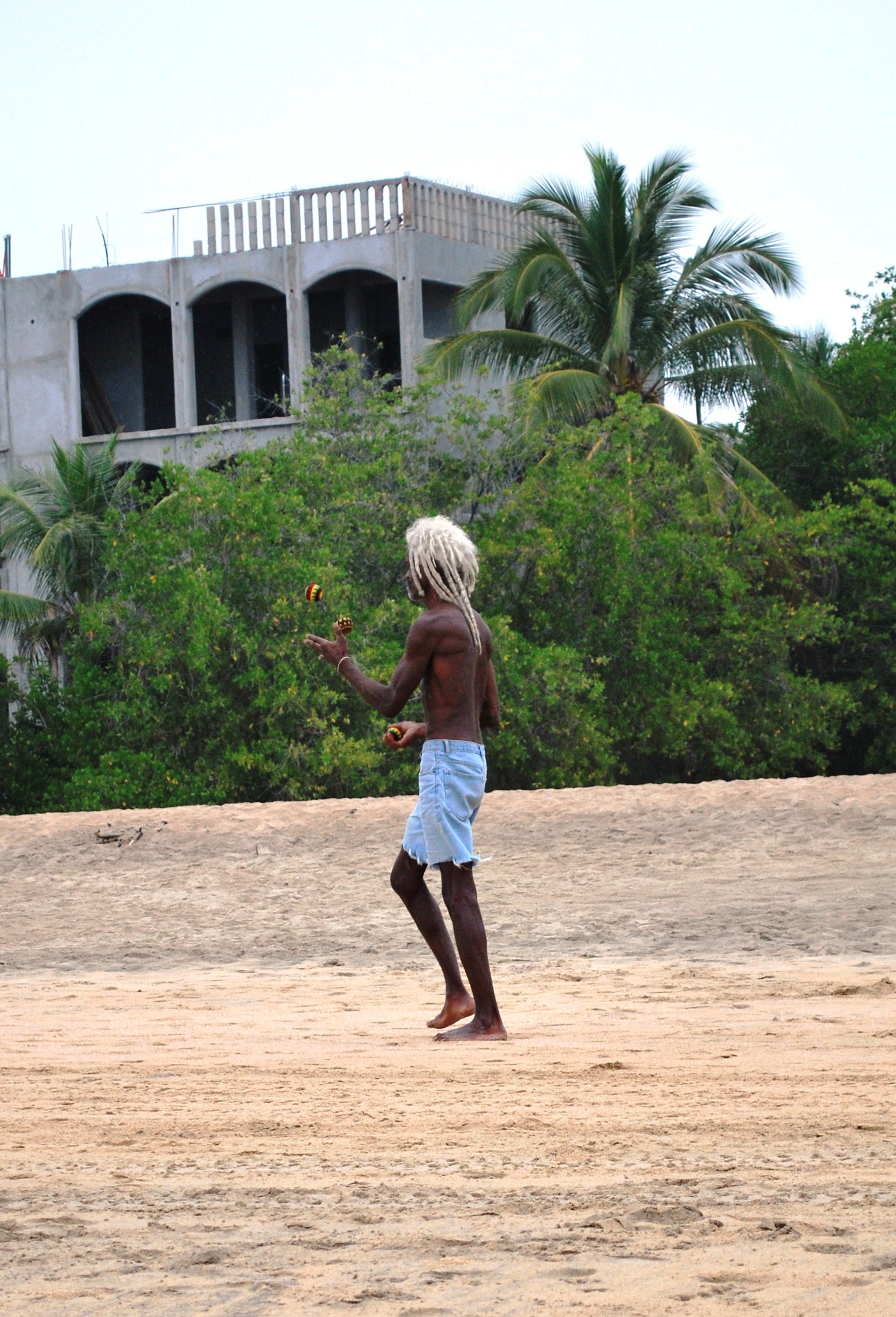 Man juggling on Zipolite Beach Oaxaca Mexico. His name is Zulu, and he's from San Francisco.